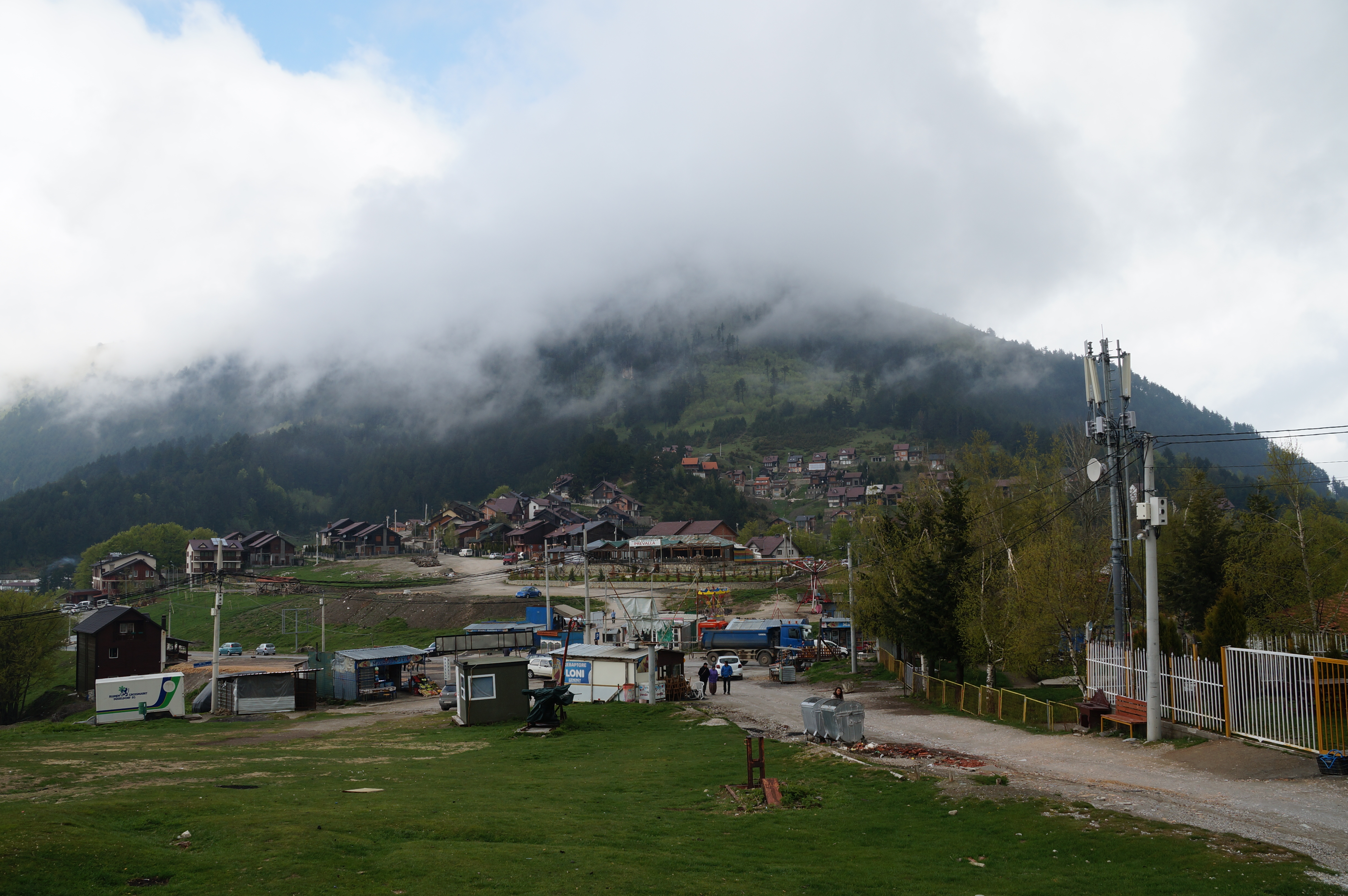 The village of Prevallë, Sharr mountains, Kosovo